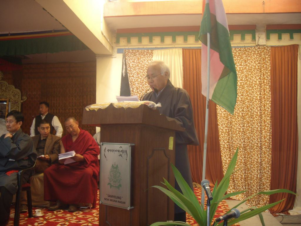 Tibetans in Delhi gathered at Samyeling Tibetan Colony at Majnu ka Tilla on December 10, 2013 to observe the 24th anniversary of the conferment of Noble Peace Prize to the Dalai Lama. Mr. Tempa Tsering, former Tibetan exile government minister and the representative of the Dalai Lama in Delhi